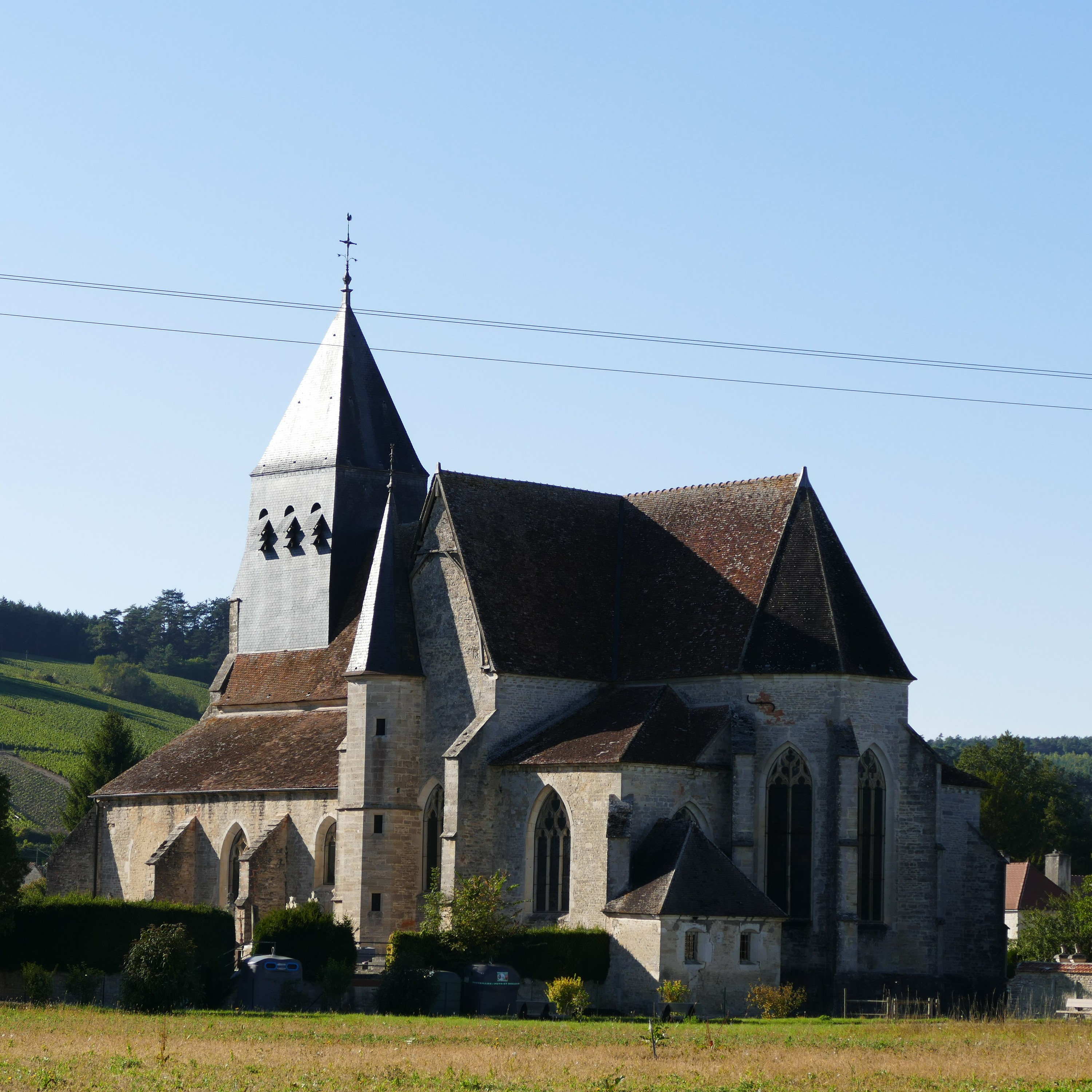 Saint-Denis' church in Polisot (Aube, Champagne-Ardenne, France).